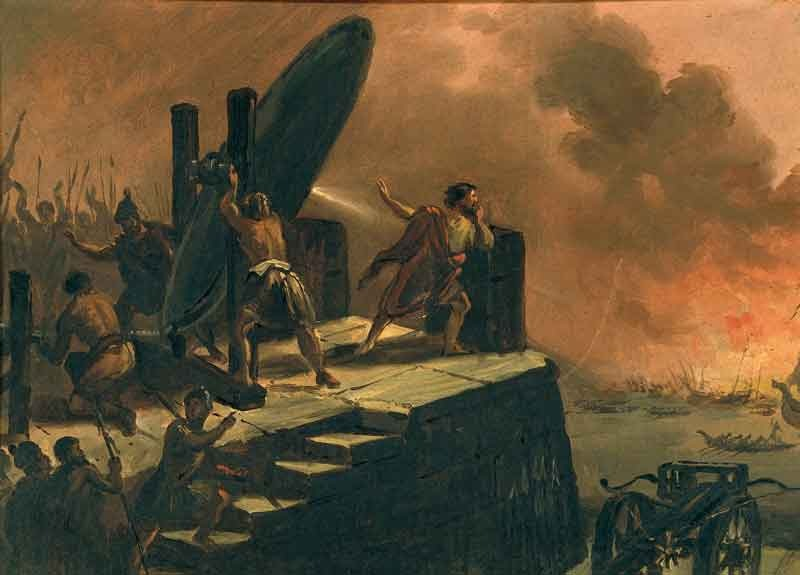 Archimedes Setting Roman Ships of Consul Marcellus on Fire with a Burning Mirror